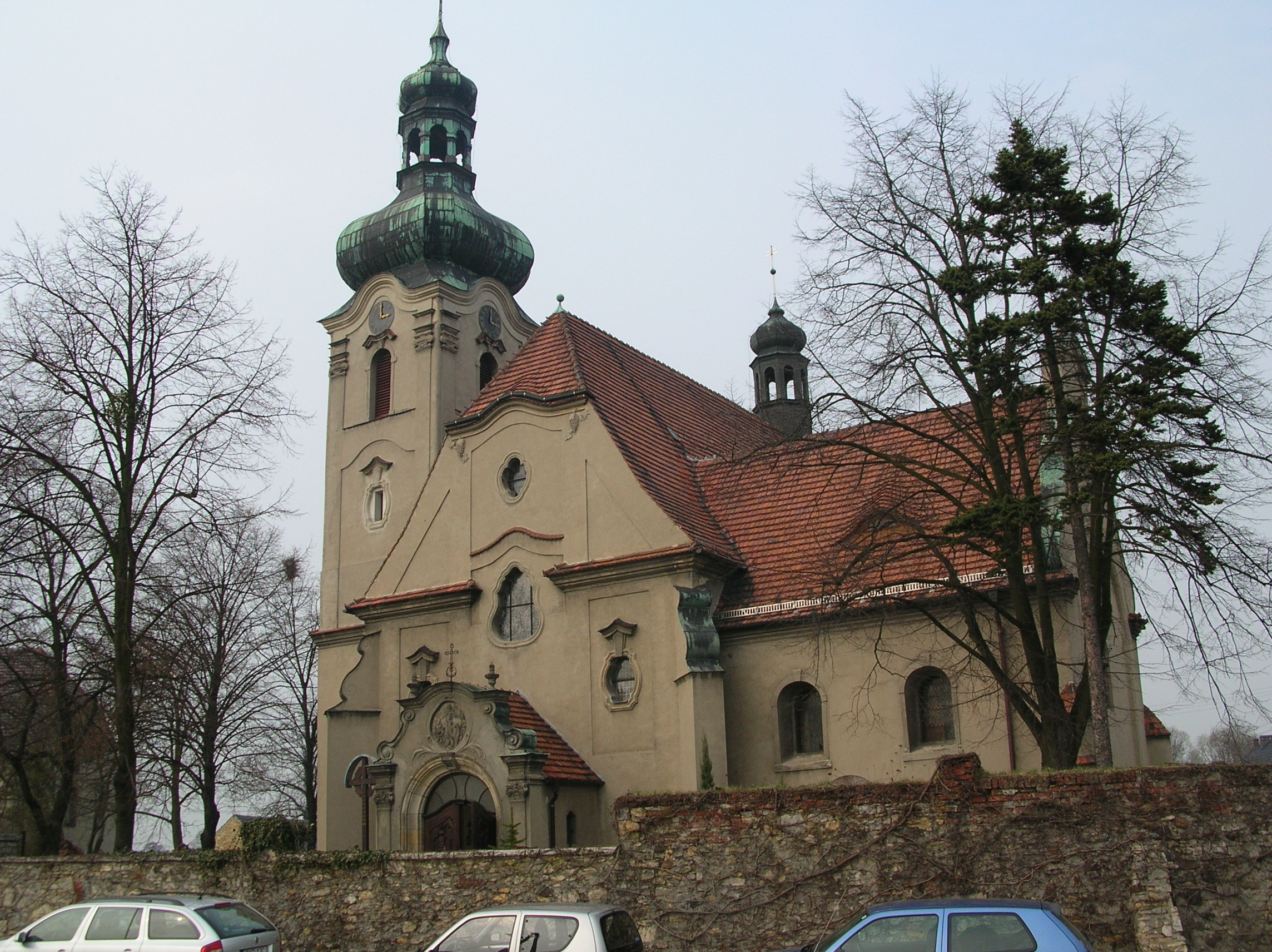 Church in Jasiona (Opole Silesia)